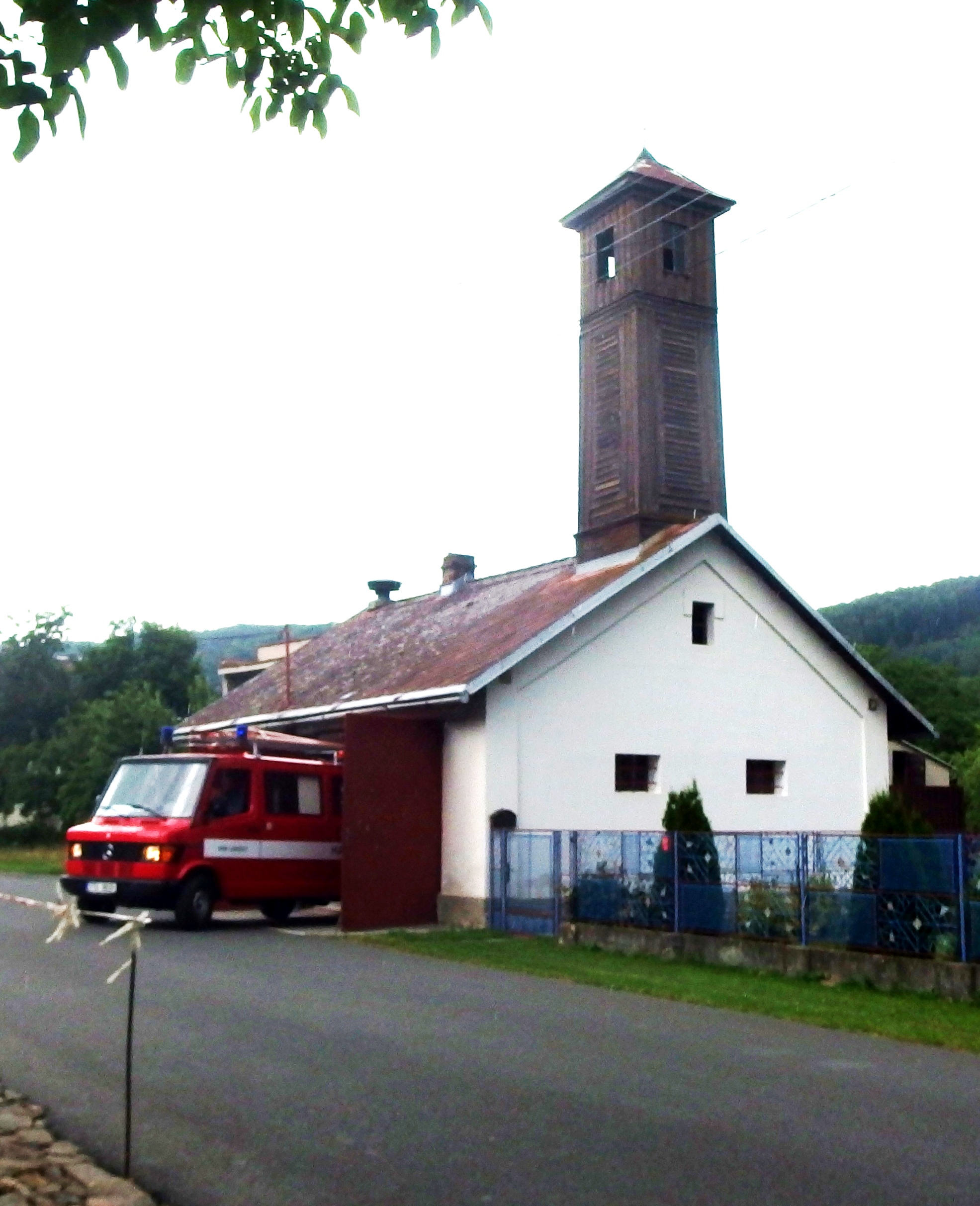 Odry, Nový Jičín District, Czech Republic, part Loučky.